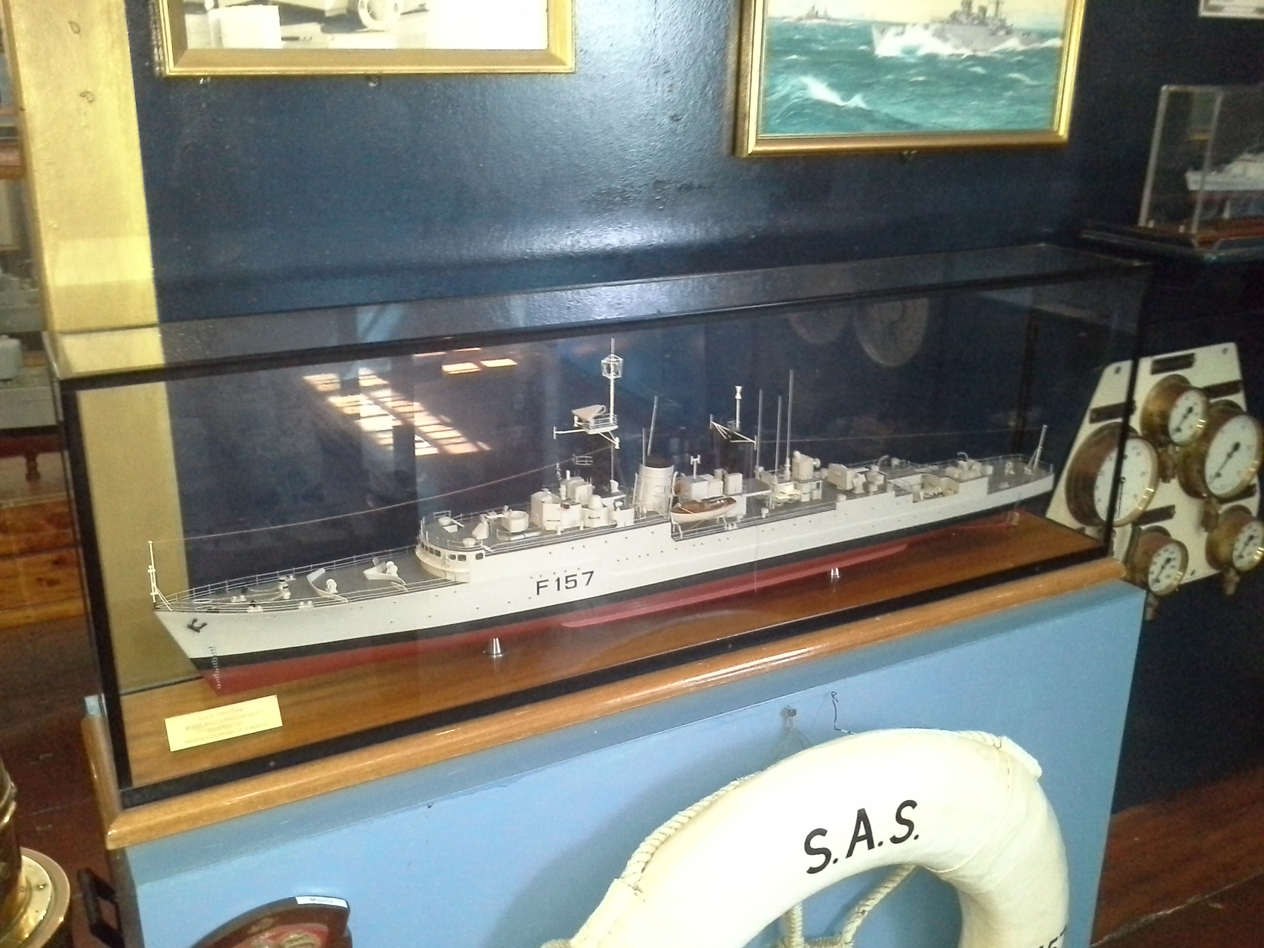 A model of SAS Vrystaat at the South African Naval Museum